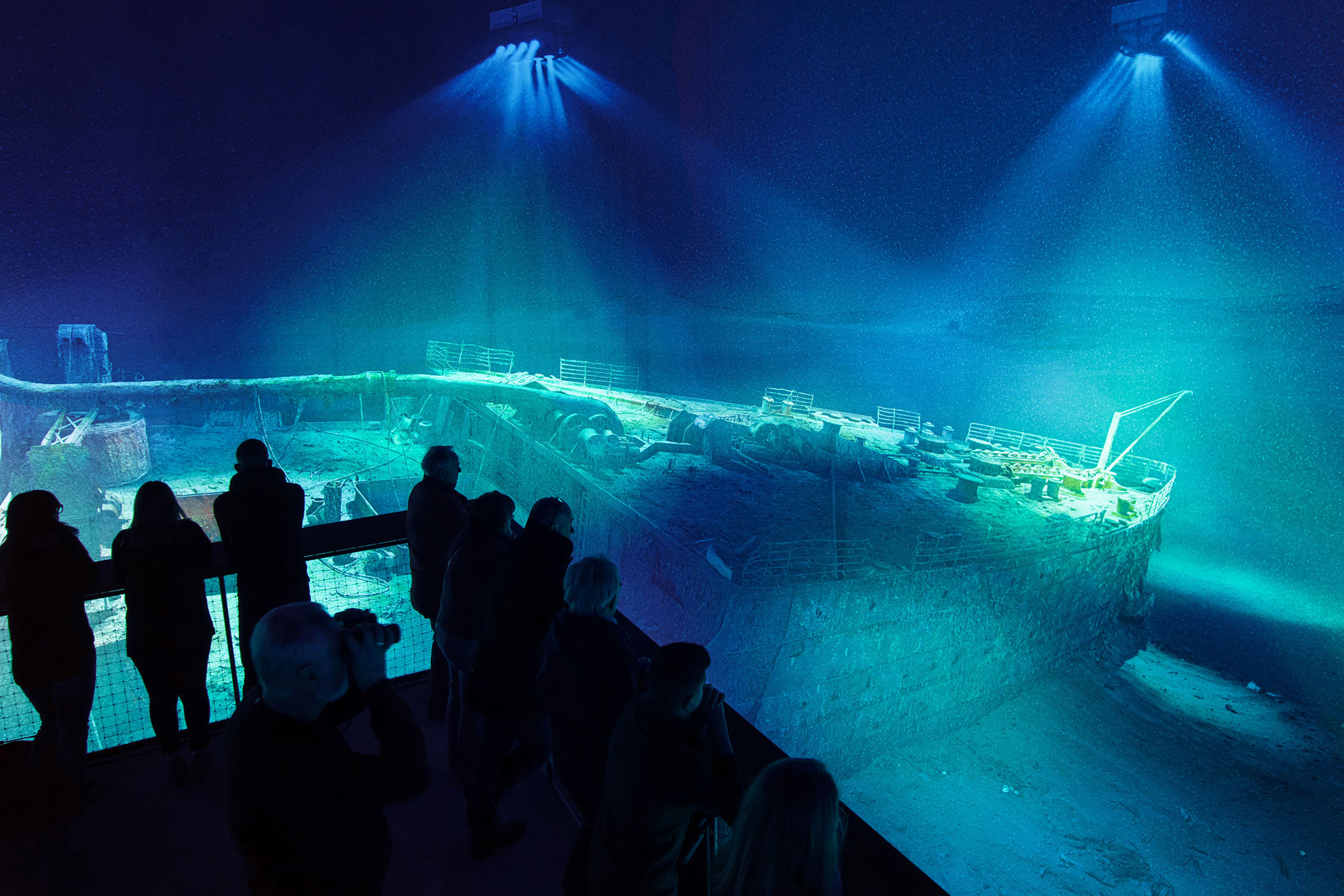 The sunken ship in the Panorama TITANIC with visitors on the platform (c) asisi